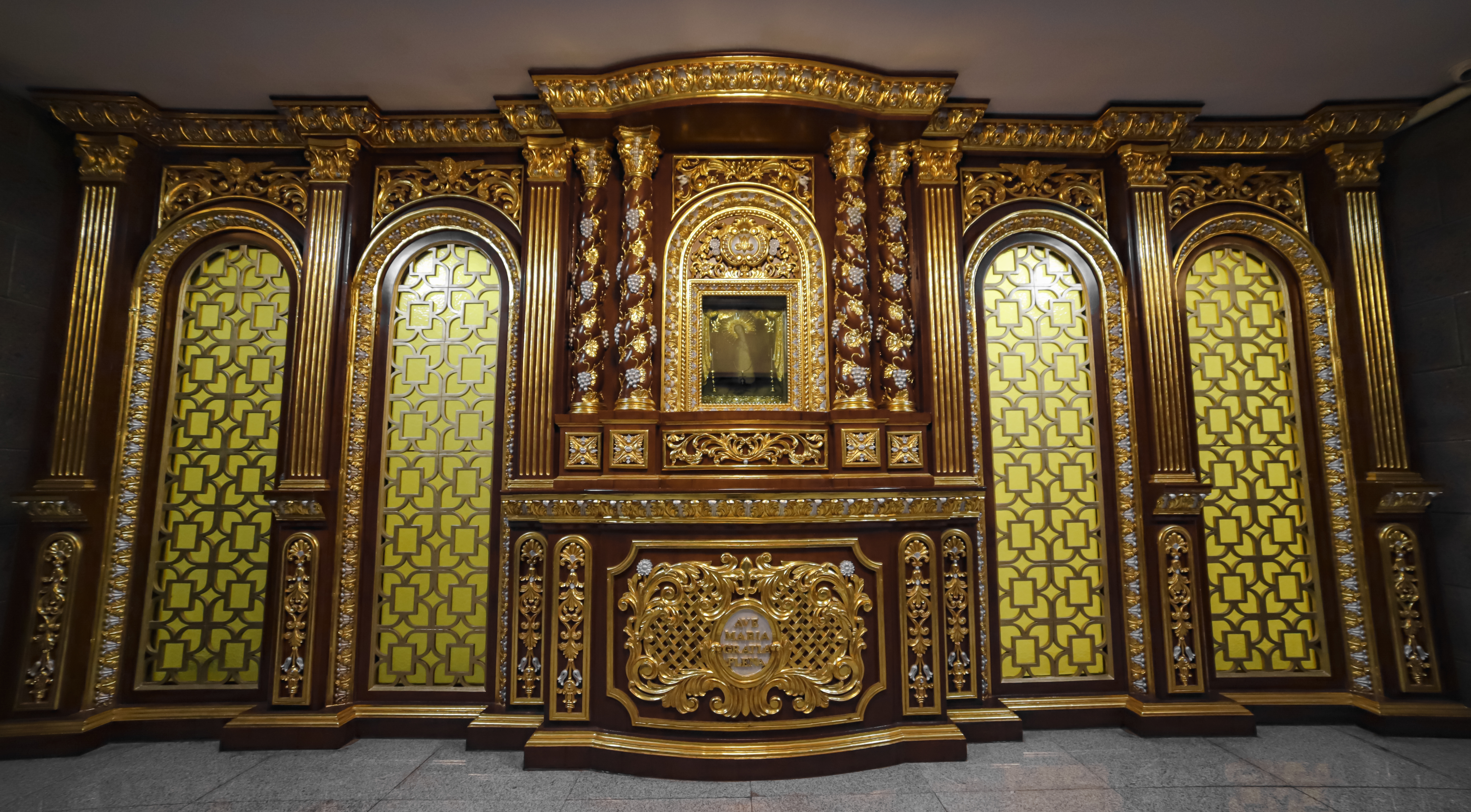 The Chapel Our Lady of Solitude of Porta Vaga